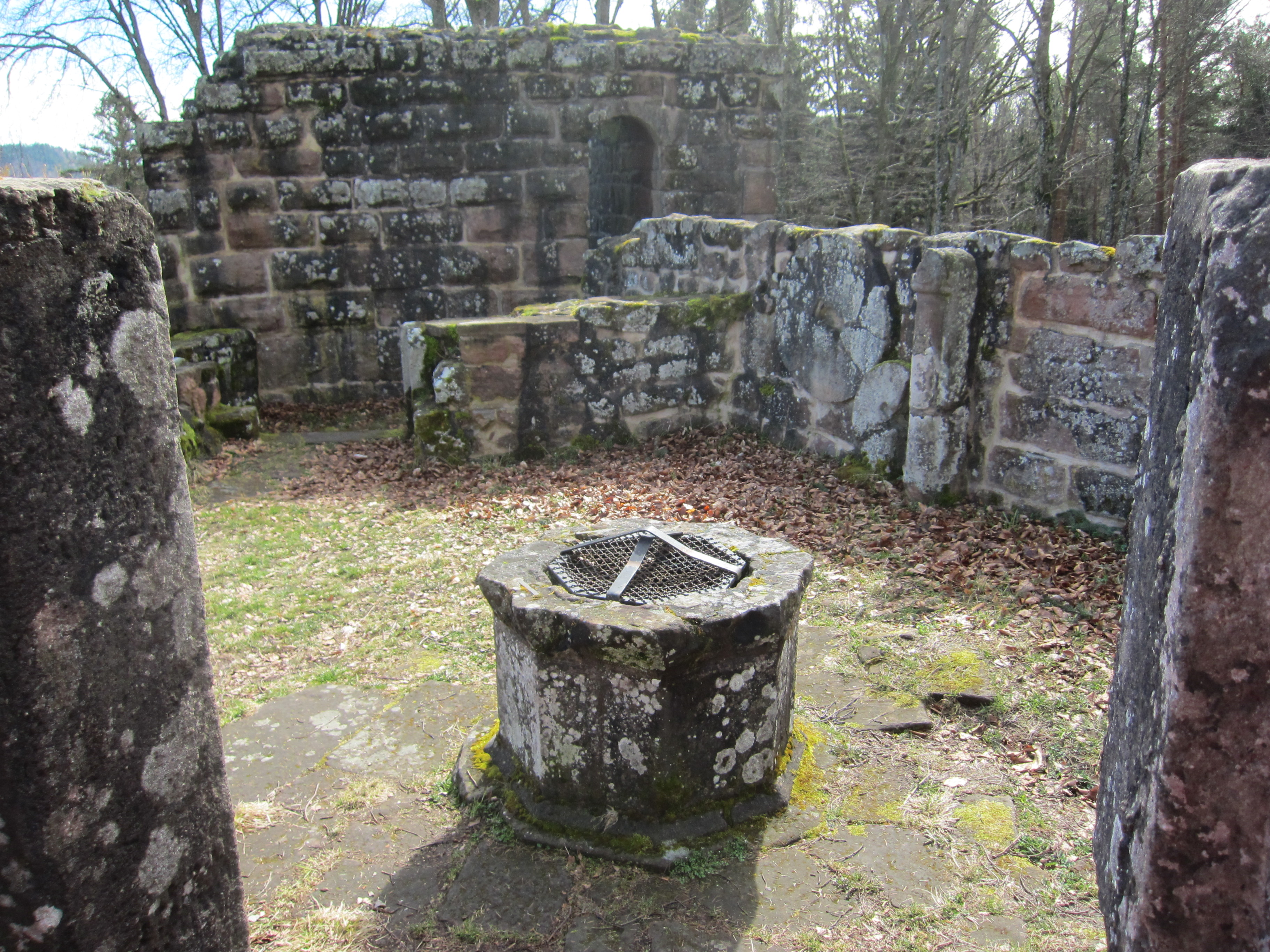 Lützelhardt Castle, the cistern building (looking eastwards)